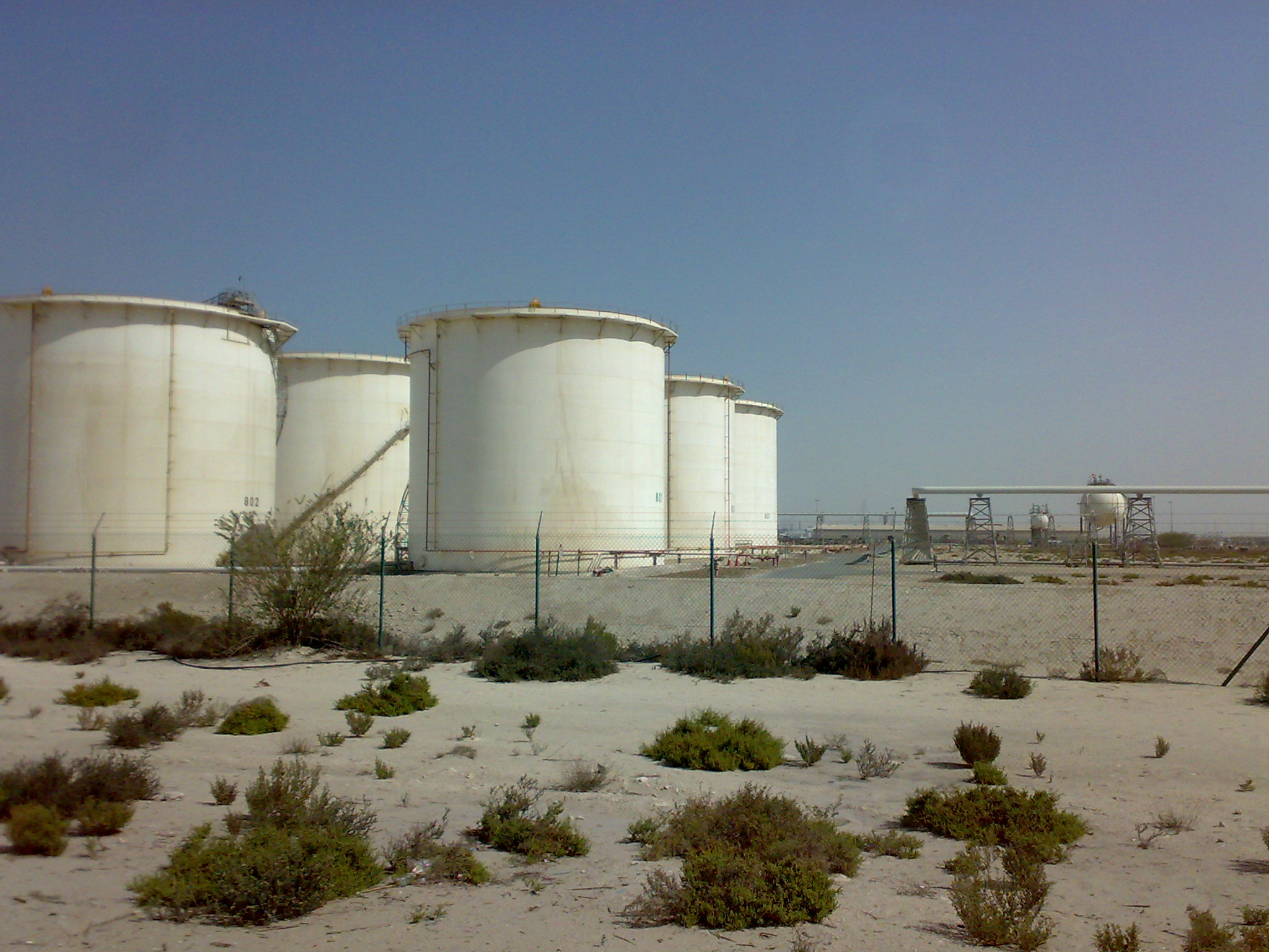 Jebel Ali Port oil depots, JAFZ, Dubai (UAE)